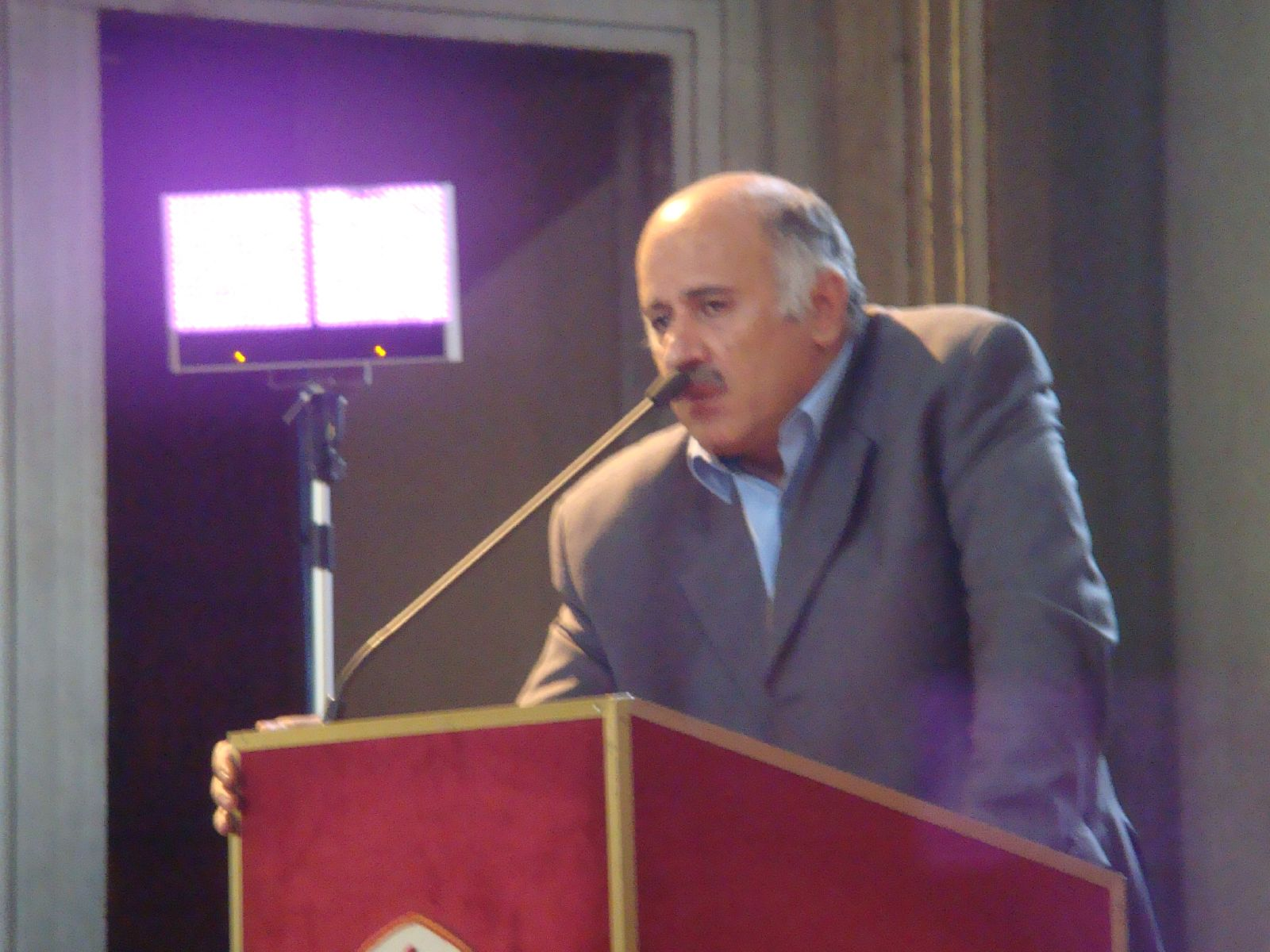 Palestinian official Jibril Rajoub